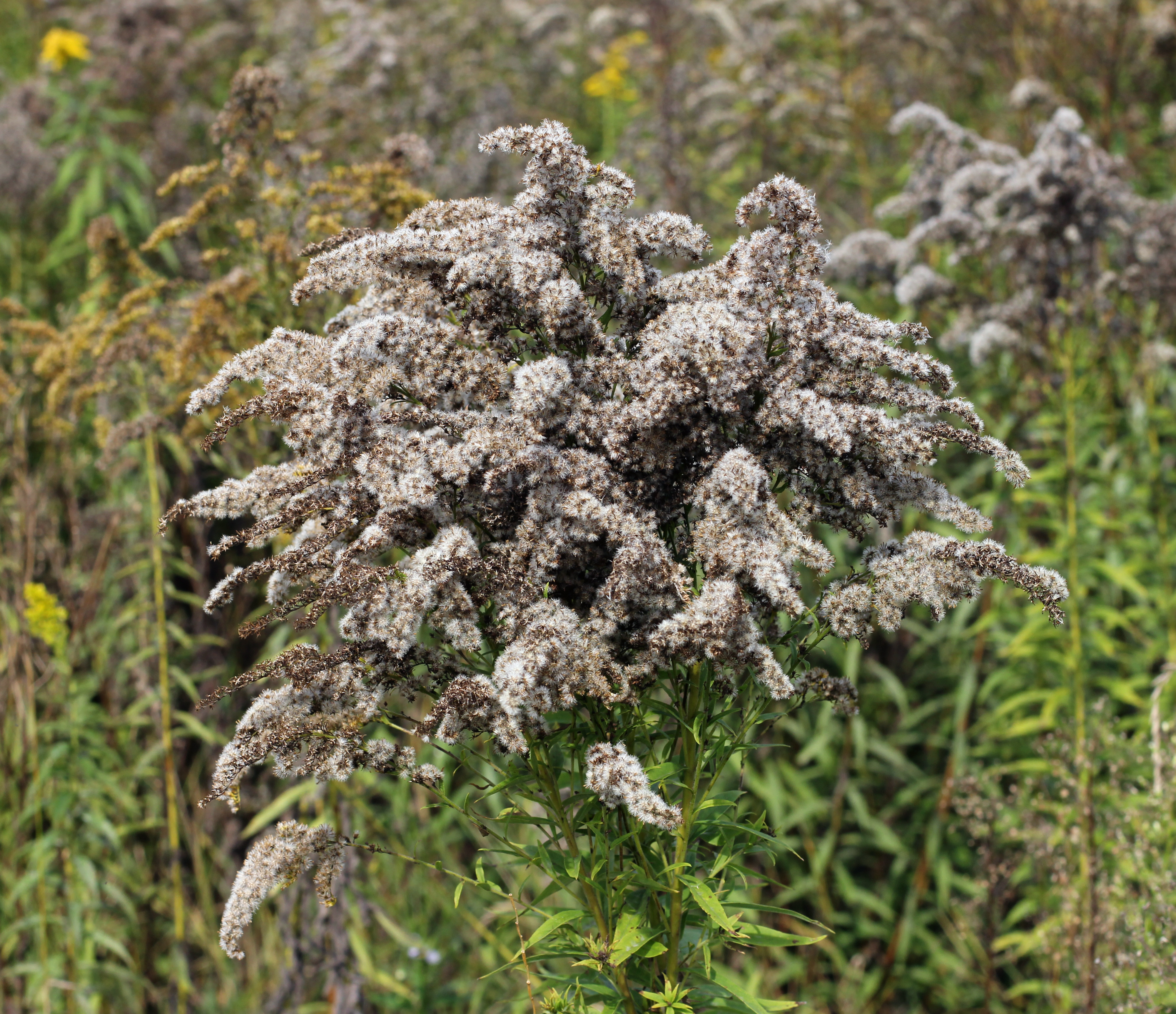 Canadian goldenrod (Solidago canadensis) with mature achenes. Invasive species in wild in Ukraine